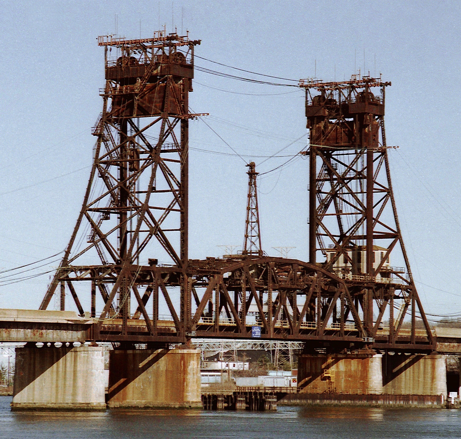 The Lower Hack Lift Bridge, a 1928 vertical-lift railroad bridge spanning the Hackensack River between Kearny and Jersey City.